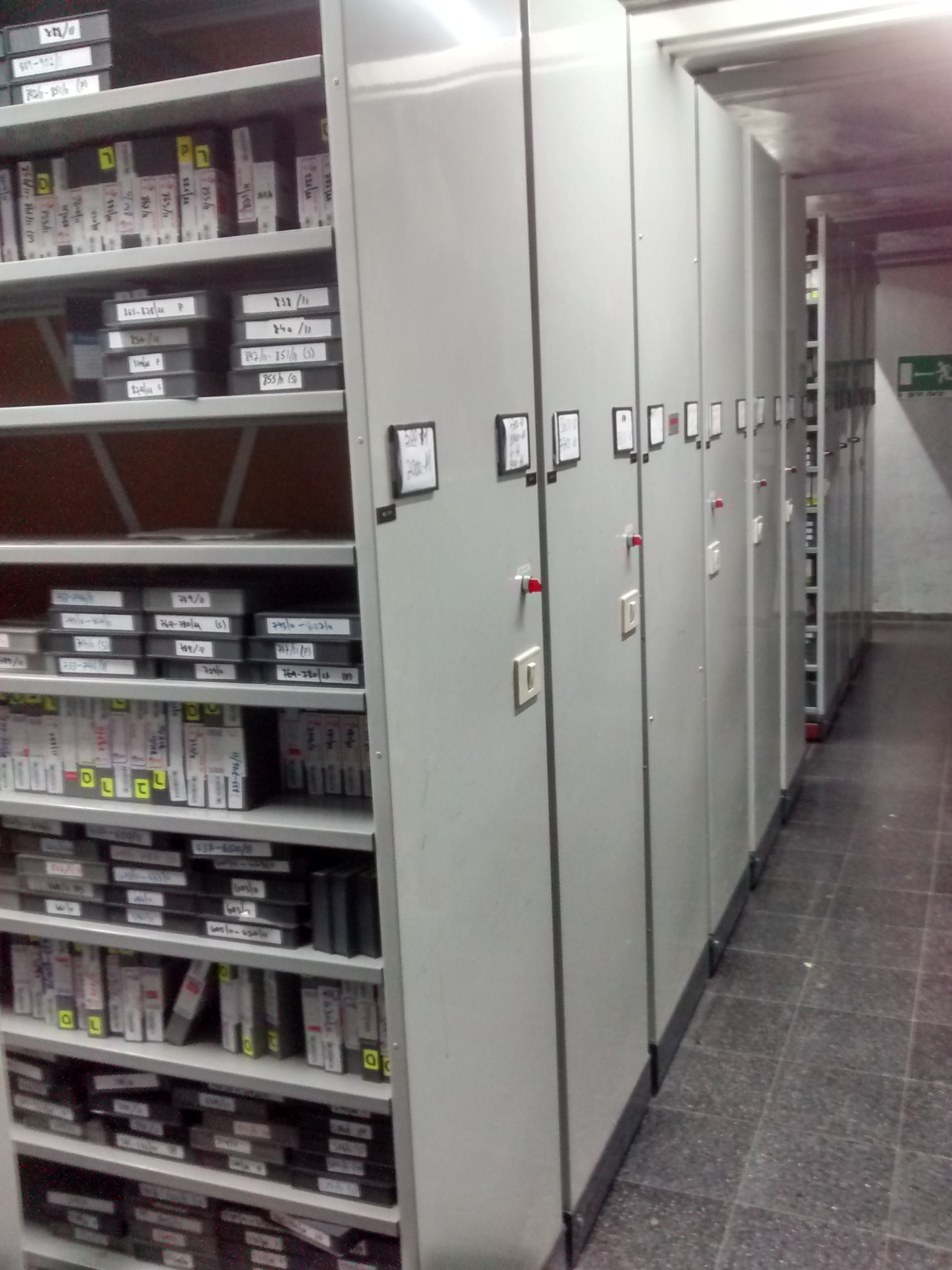 Israel Broadcasting Authority's archive of television recordings